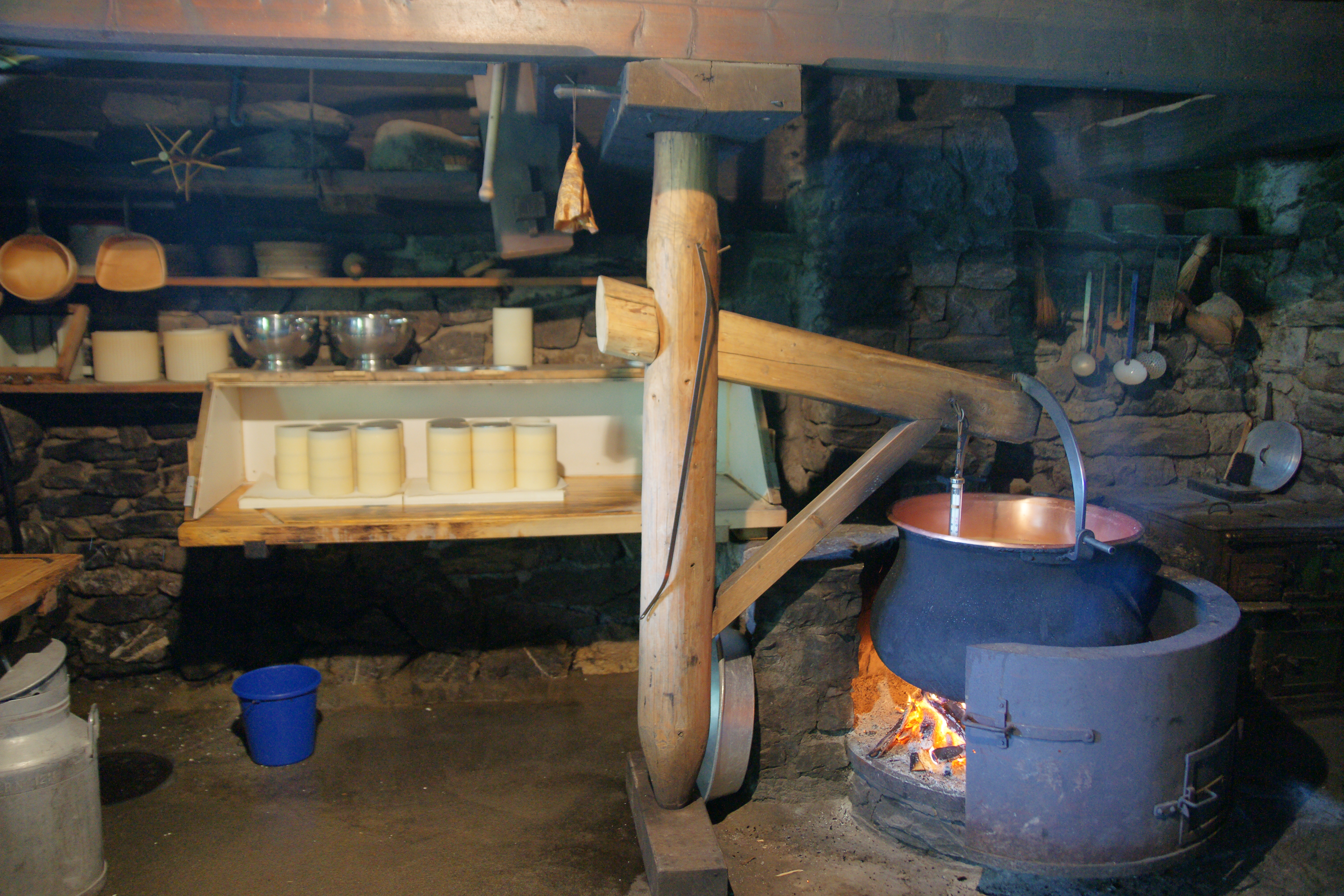 Swiss Open Air Museum Ballenberg: Alpine cheese dairy of Kandersteg / BE (1780)